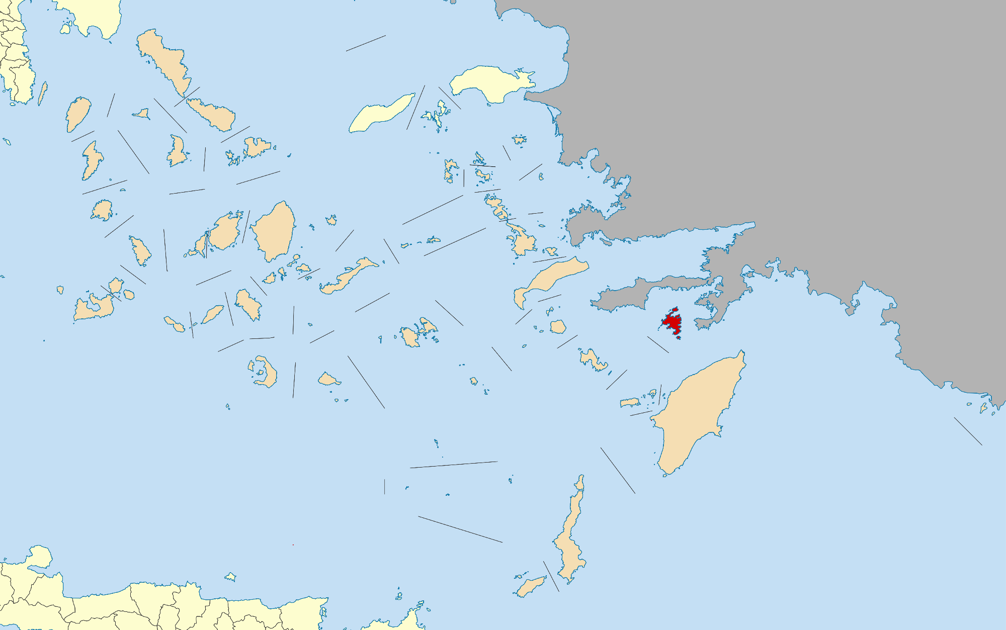 Locator map for Symi municipality in Greek region South Aegean (2011)